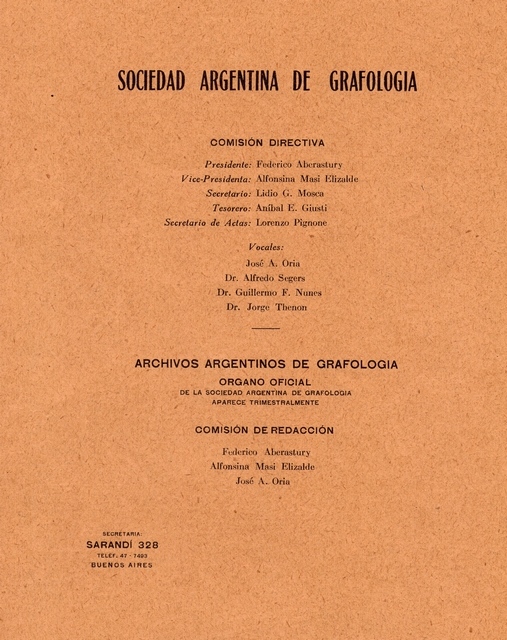 First issue of the magazine "Argentine Archives of Graphology"